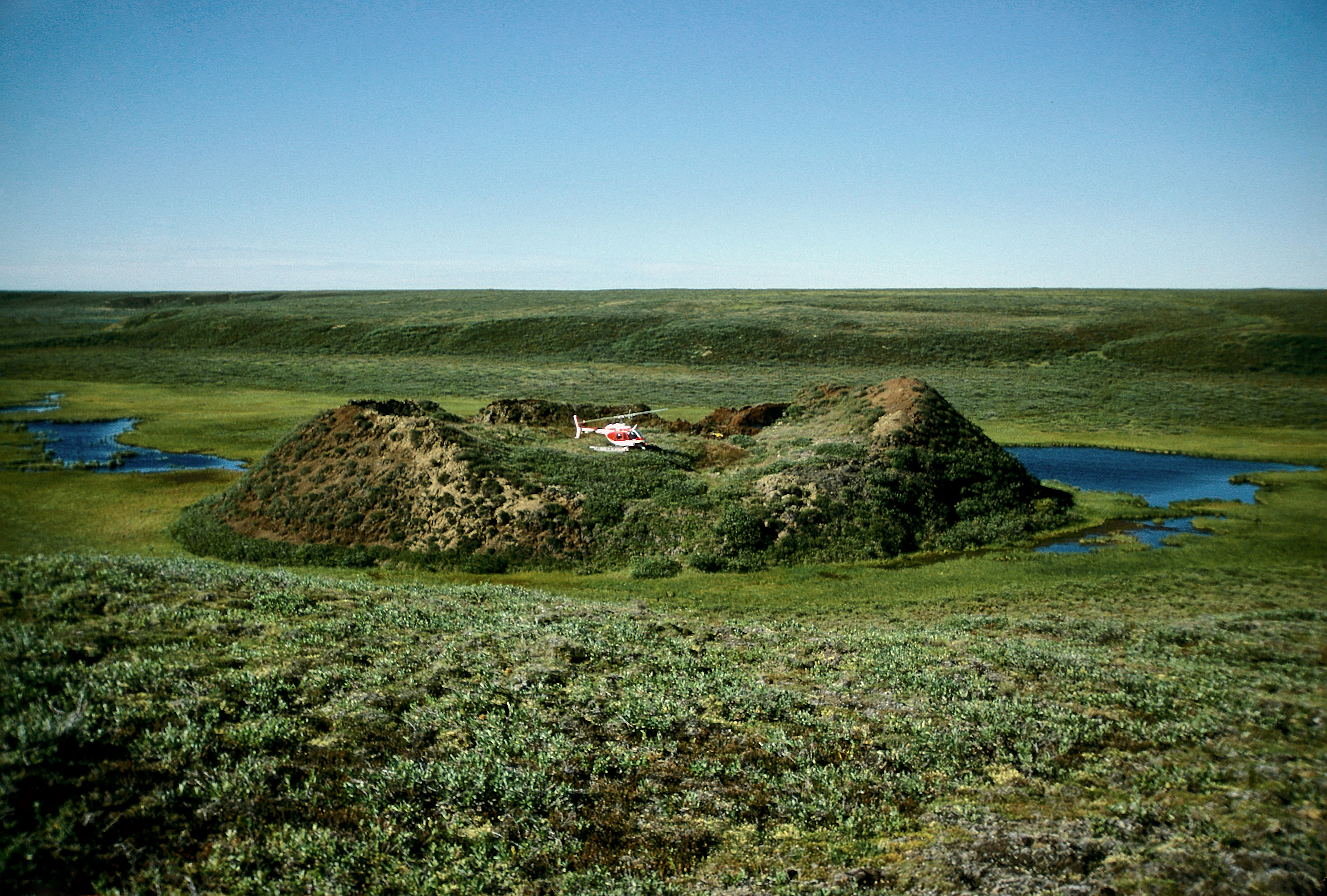 Collapsed pingo in the Mackenzie Delta, helicopter for scale. The thick peat cover protects the massive ground-ice below. The formerly drained lake can be outlined. Photo: Lorenz King, August 8,1987